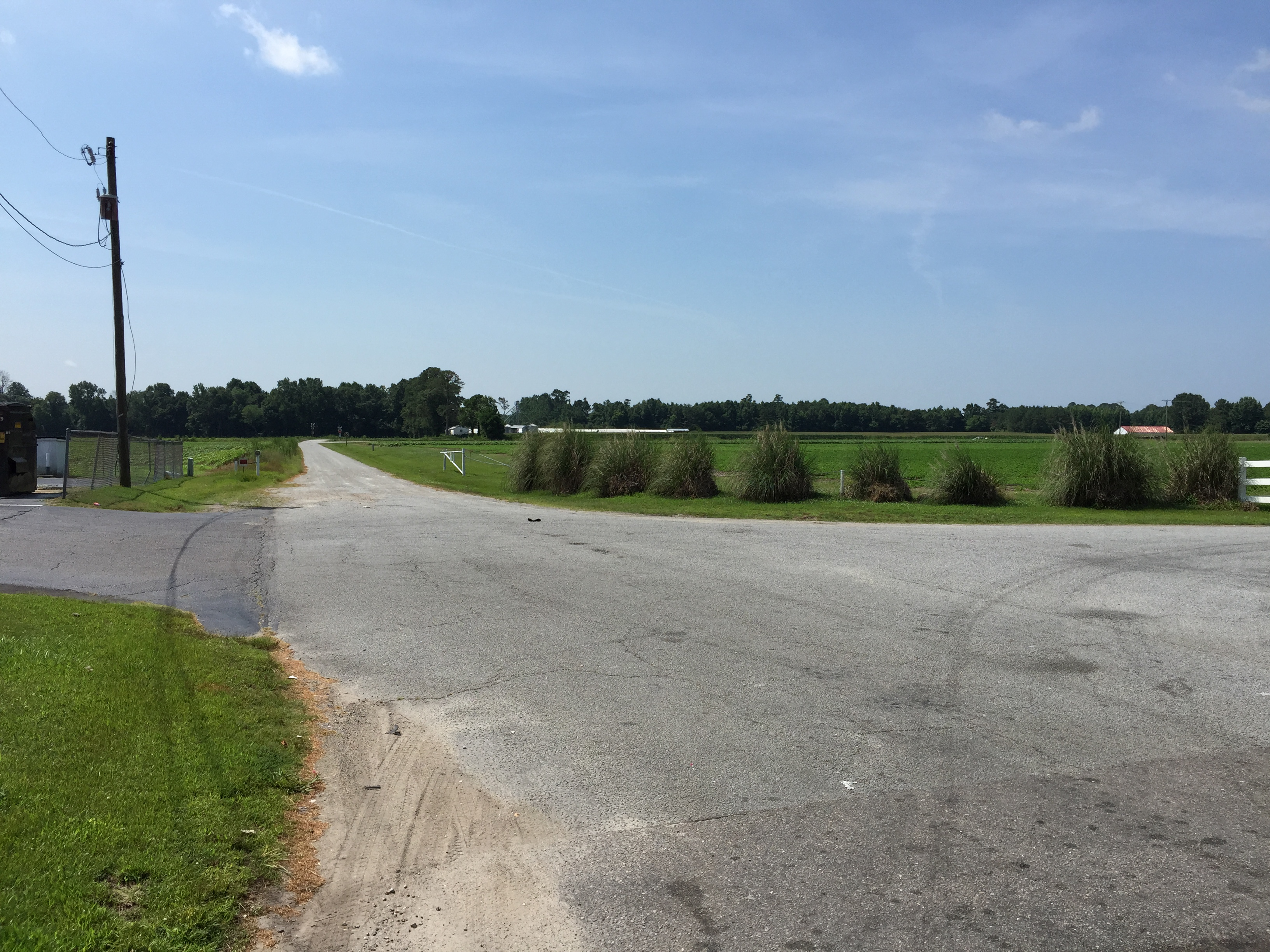 View south along Virginia State Route 390 at U.S. Route 58 (Holland Road) at the Virginia Tech Tidewater Agricultural Research & Extension Center in Suffolk, Virginia